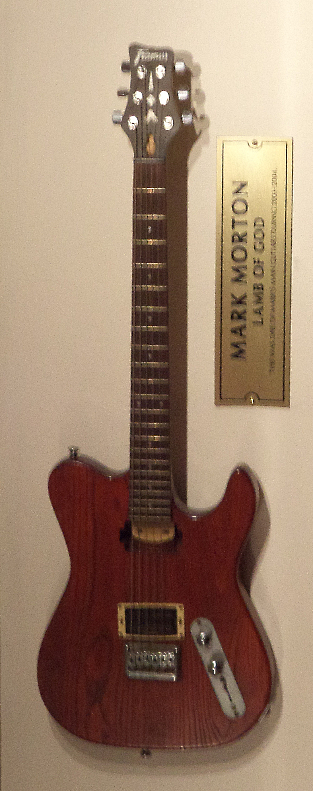 Hard Rock Cafe, Atlanta, Fulton County, Georgia